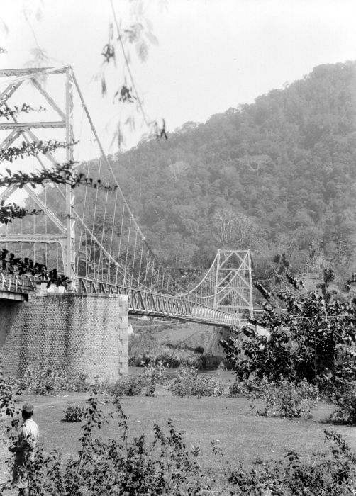 Iron bridge across the Cimandiri river near Pelabuhanratu